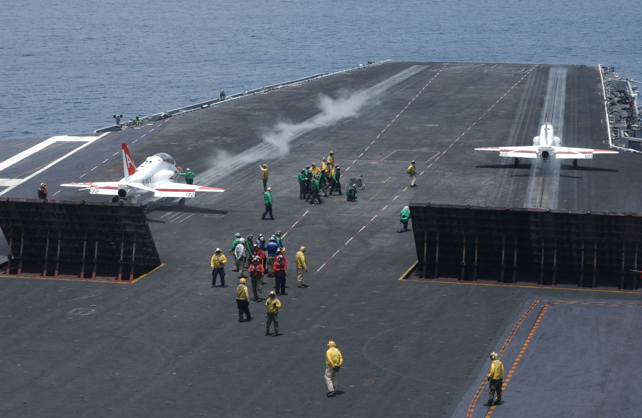 Aboard USS Harry S. Truman (CVN 75) (Jul.13, 2003) -- Two T-45C Goshawks assigned to Fixed Wing Training Squadron Seven (VT-7) prepare to take off from flight deck of USS Harry S. Truman (CVN 75). Truman is conducting Carrier Qualifications (CQ) and an ammo off load, on the Eastern seaboard of the United States. U.S. Navy Photo by Photographer's Mate Airman Derrick Snyder. (RELEASED)